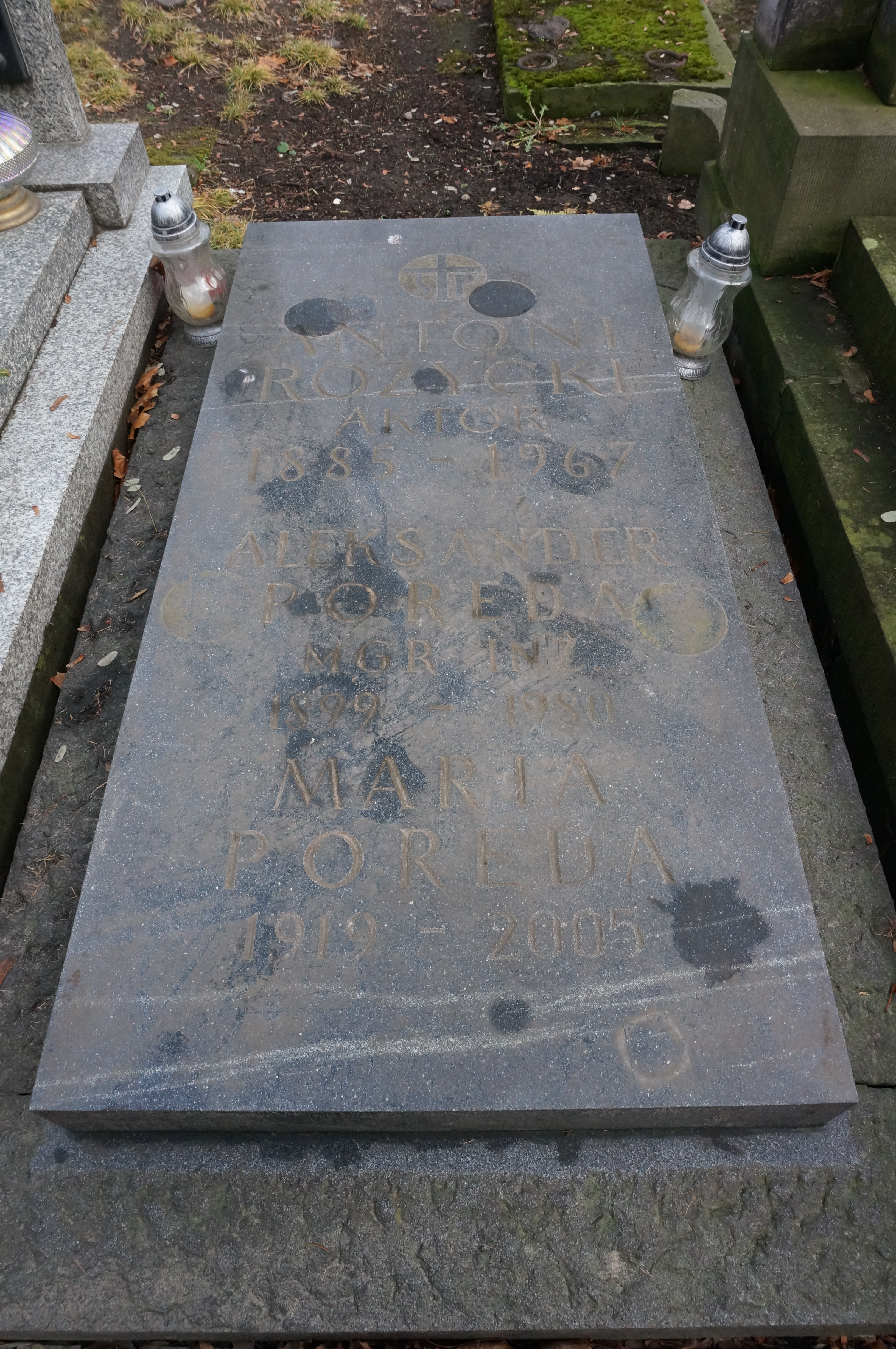 The grave of Antoni Różycki at the Powązki Cemetery (section 24, row 2, grave 13)